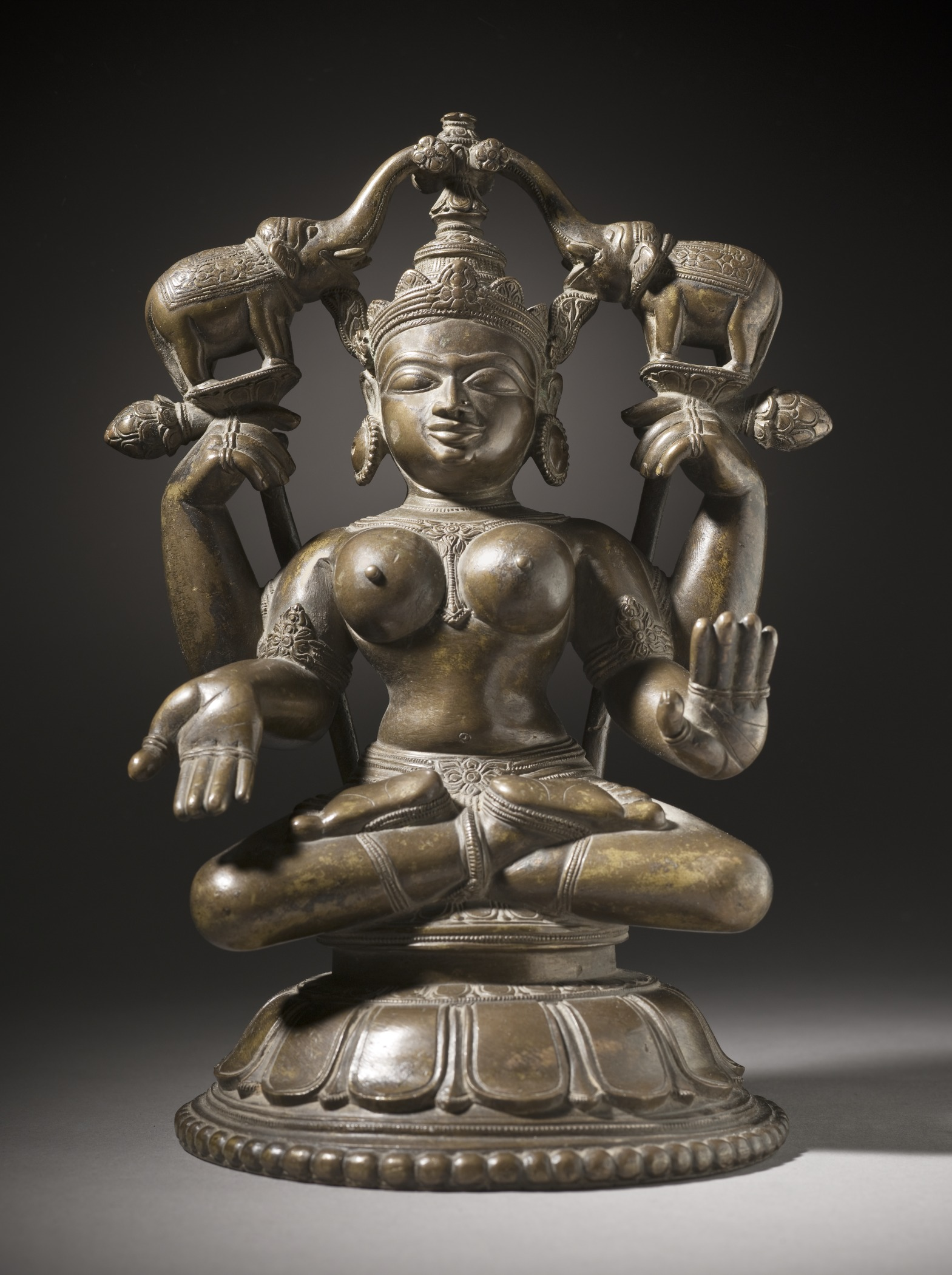 India, Odisha (Orissa), 18th century Sculpture Brass Indian Art Special Purpose Fund (M.74.40.1) South and Southeast Asian Art